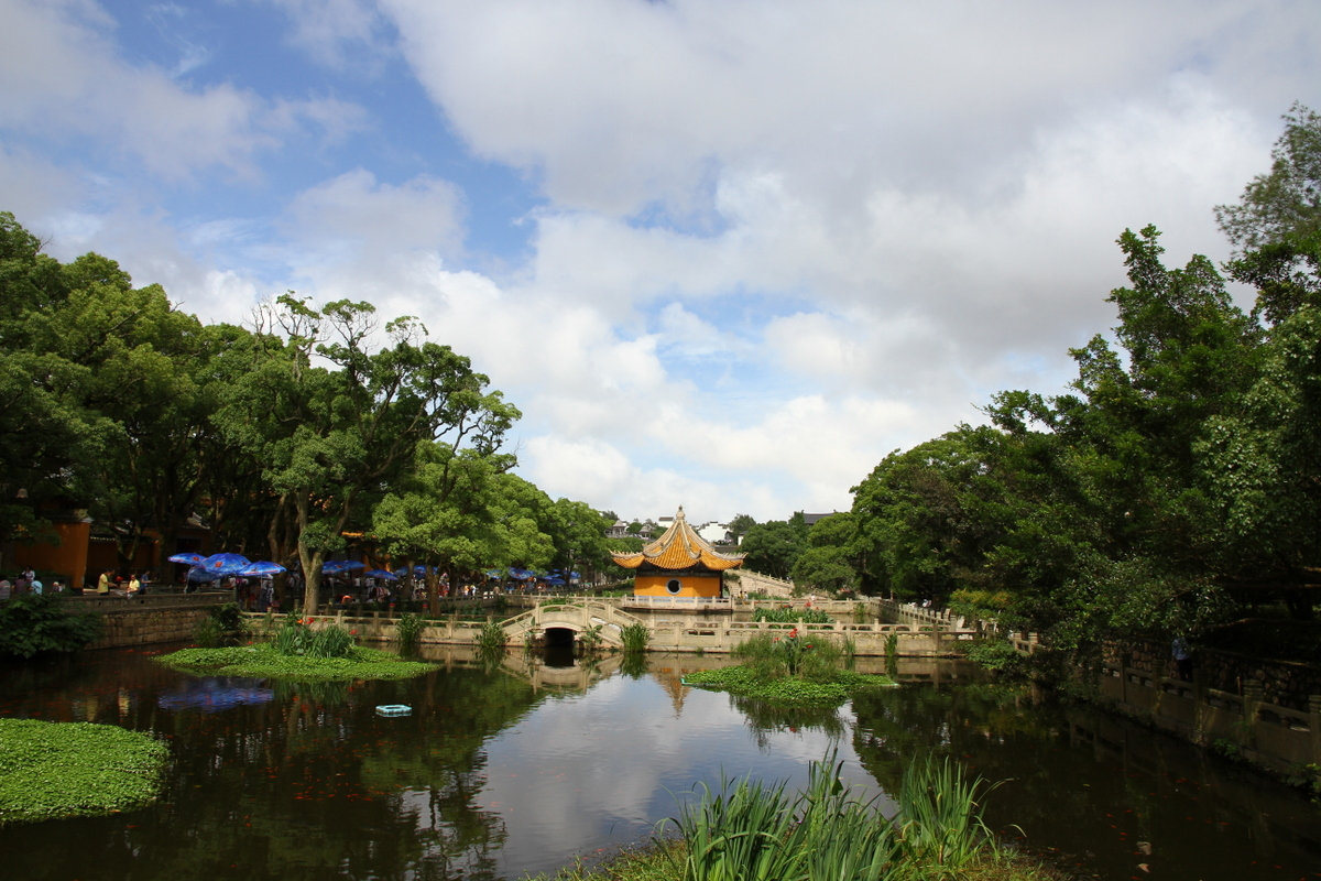 Lake and Pavilionson Mount Putuo Shan island